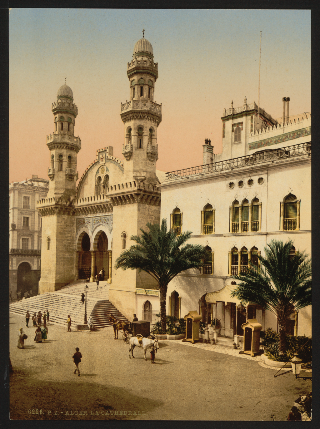 This photochrome print is from “Views of People and Sites in Algeria” in the catalog of the Detroit Photographic Company. It depicts the Cathedral of St. Philippe in Algiers, originally the Ketchaoua Mosque, which had been converted to a Christian place of worship in 1845 under the French colonial occupation. The structure was reconverted back to a mosque following Algeria’s independence in 1962. The Detroit Photographic Company was launched as a photographic publishing firm in the late 1890s by Detroit businessman and publisher William A. Livingstone, Jr. and photographer and photo-publisher Edwin H. Husher. They obtained the exclusive rights to use the Swiss "Photochrom" process for converting black-and-white photographs into color images and printing them by photolithography. This process permitted the mass production of color postcards, prints, and albums for sale to the American market. Cathedrals